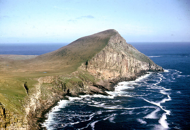 The Noup, Foula over Mucklebrik from above Ufshins, with the vertical cleft of da Sneck o da Smallie